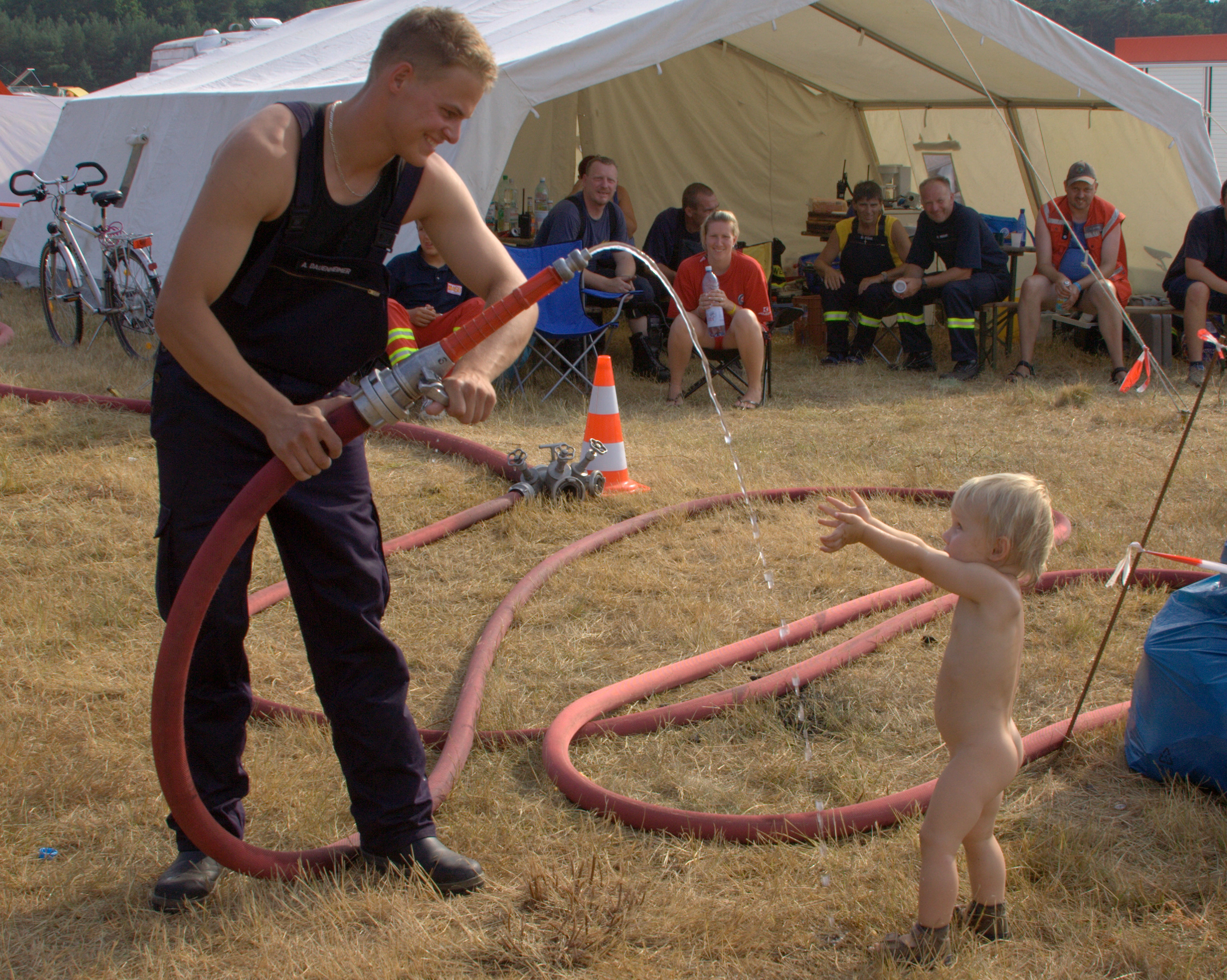 At the Nation of Gondwana Open Air 23.07.2006. See where the photo was taken at maps.yuan.cc/.